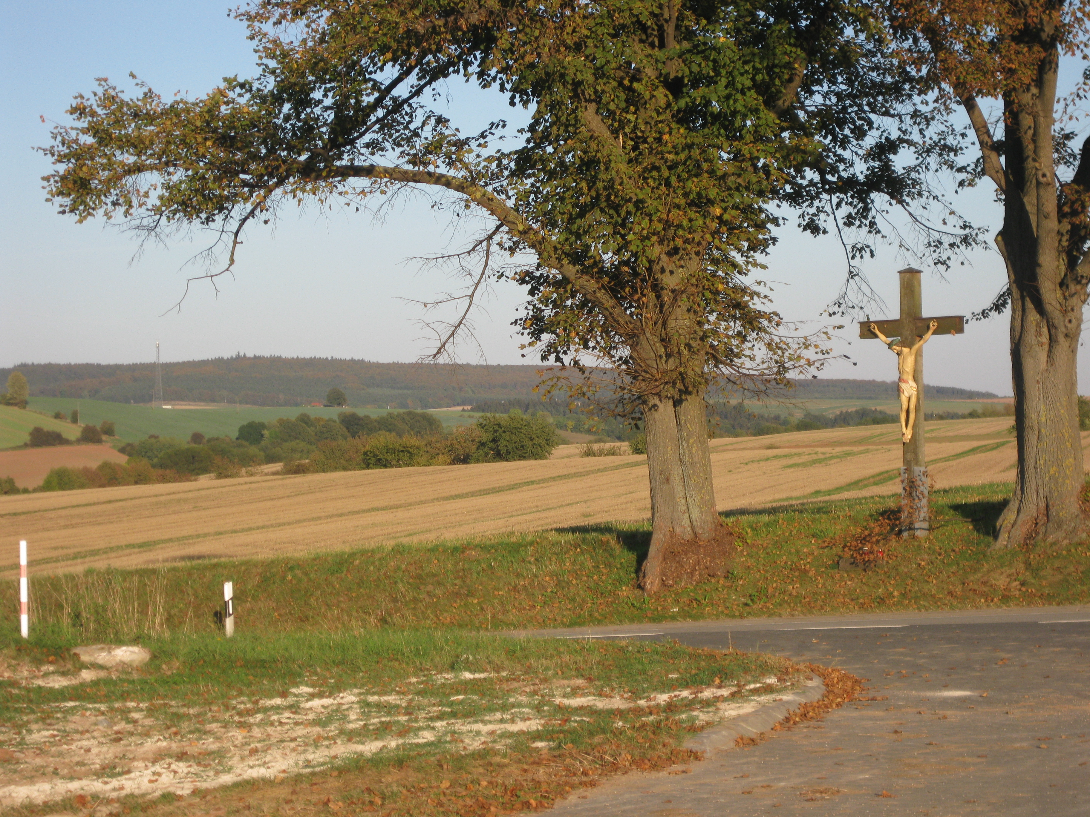 Eichsfelder landscape Leinetal 01